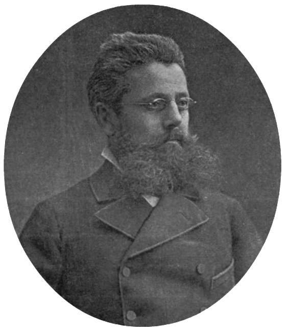 Photograph of Mihail Stroescu (Mikhail Vasilyevich Stroesko,Michailu V. Stroesco; 1836–January 27, 1889), the Bessarabian Romanian aristocrat, philanthropist and traveler, elder brother of the politician Vasile Stroescu. Published alongside his obituary.